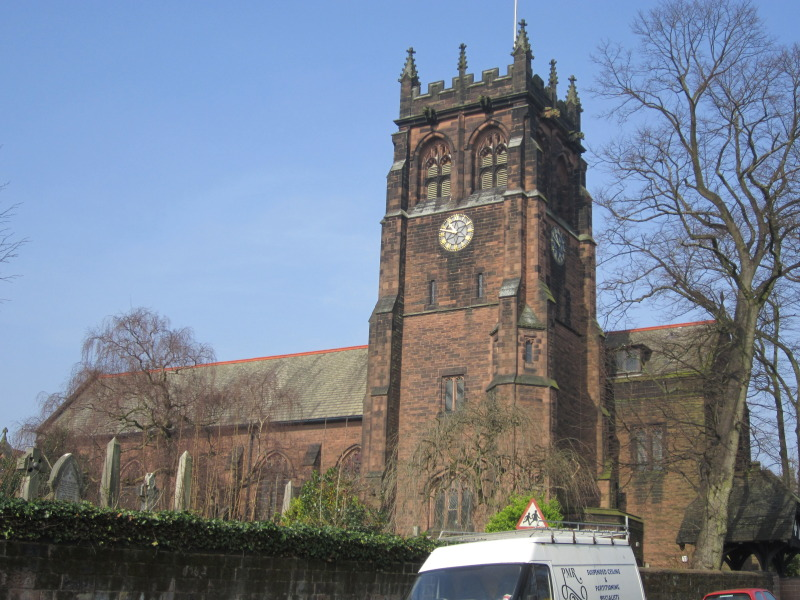 St Peter's Church, Woolton, Liverpool, England.